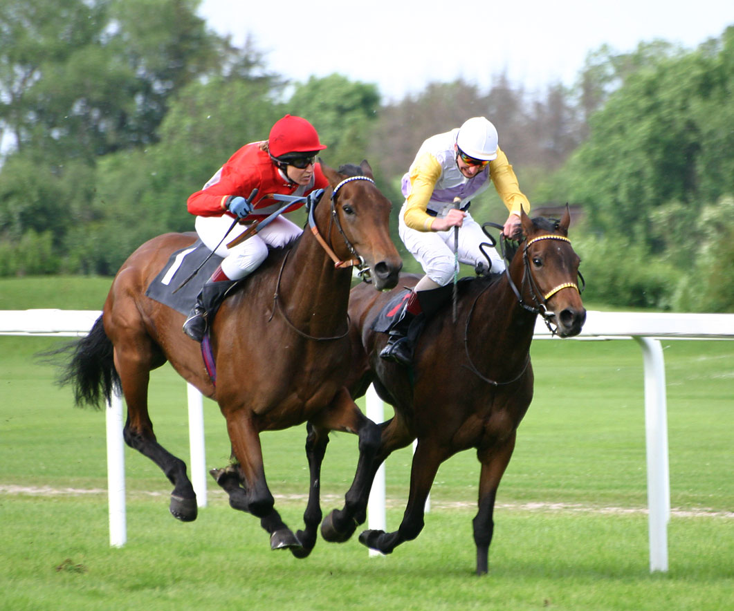 Horse Racing at Galopp Riem, Munich, Germany